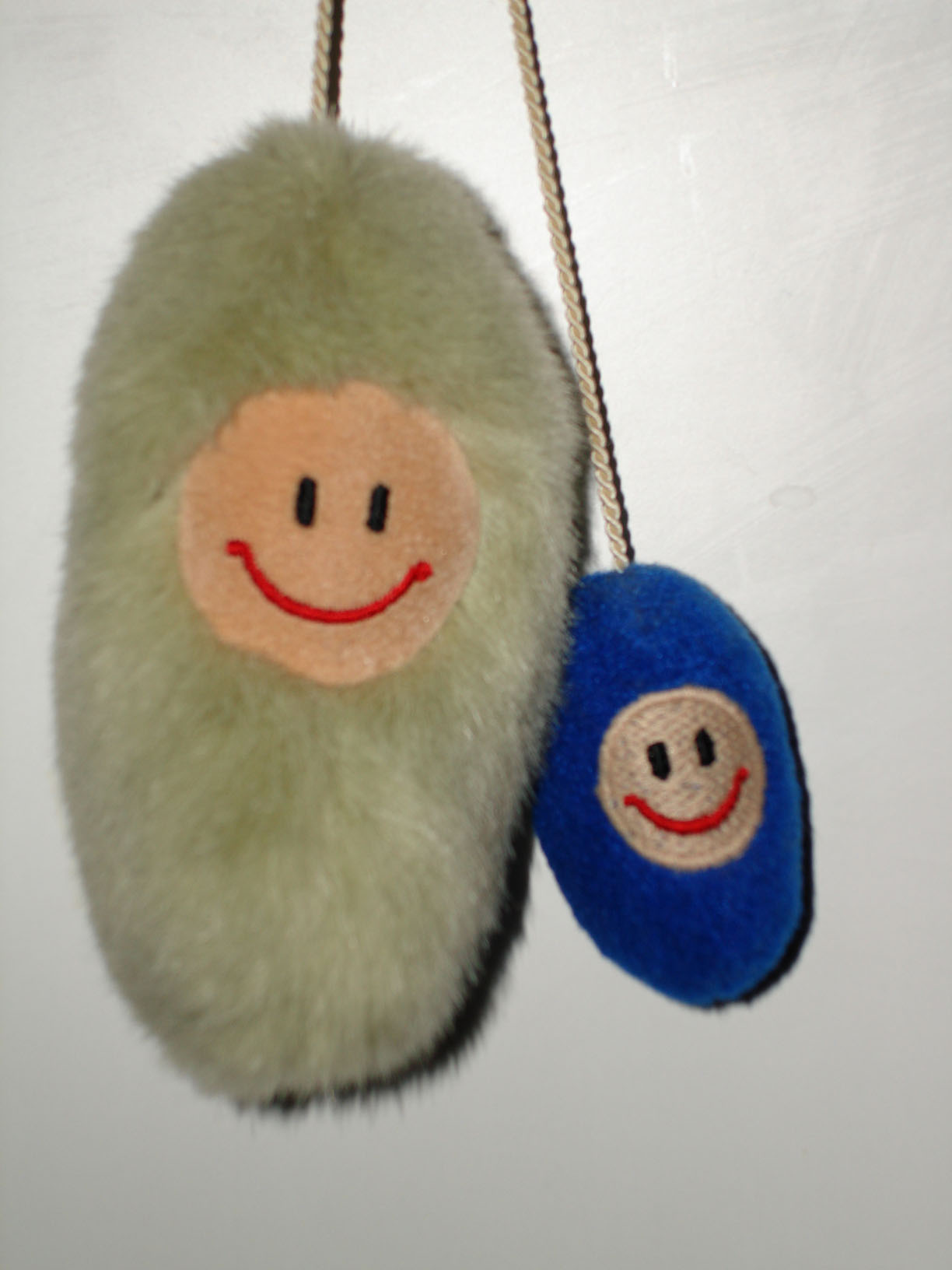 „Erfurter Puffbohne“ (UNICEF-Edition)